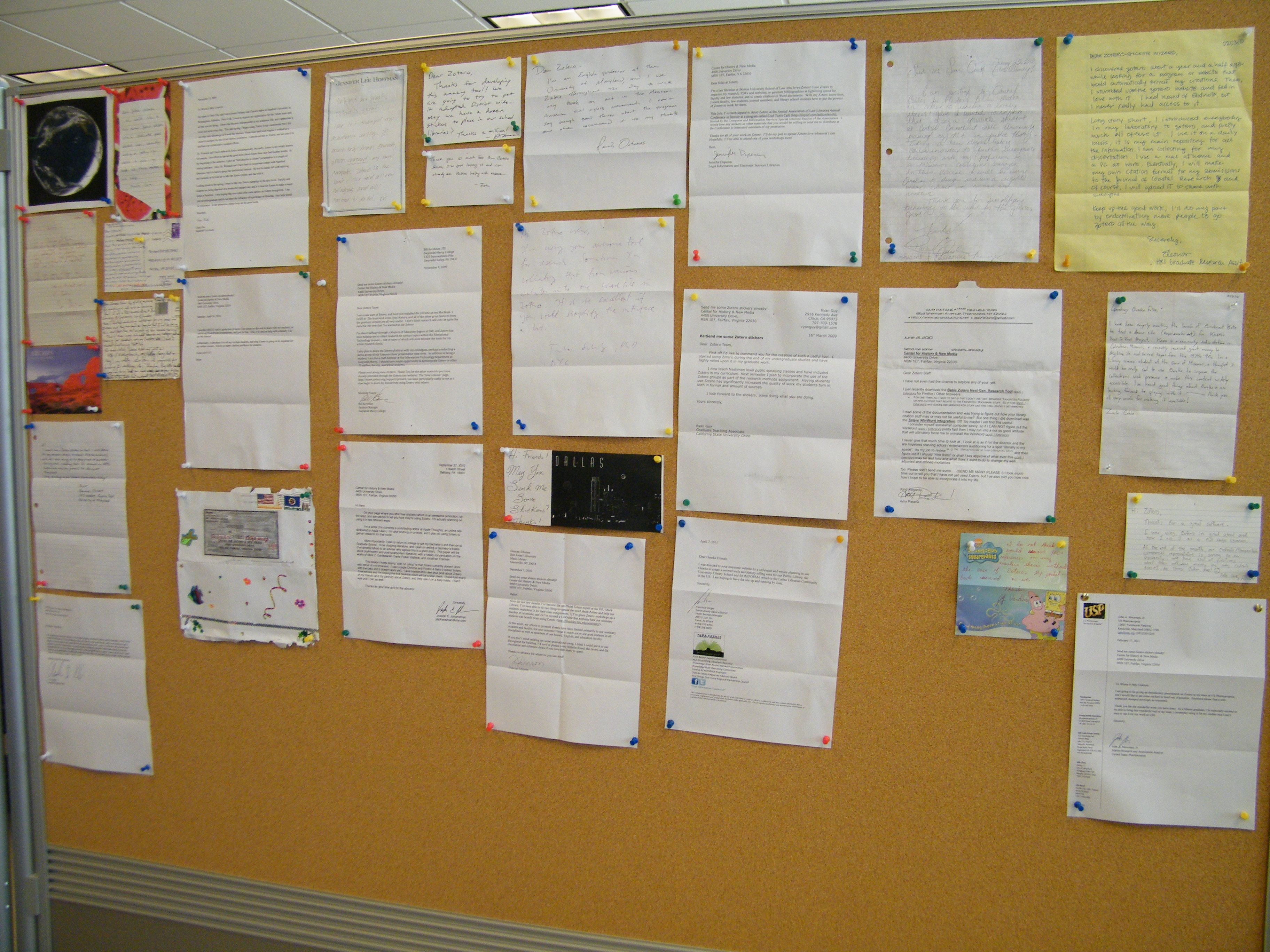 Letters from fans of Zotero at Roy Rosenzweig Center for History and New Media